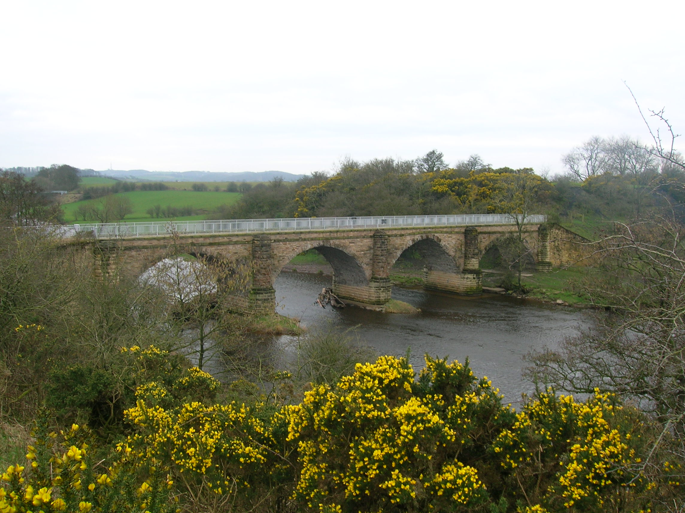 Laigh Milton viaduct in 2007. One of the oldest railway viaducts in the World - 1811. North Ayrshire, near Gatehead, Scotland.